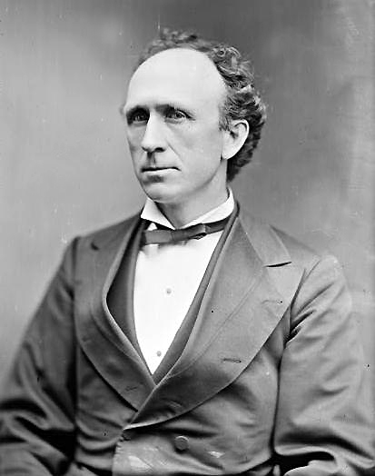 Thomas Ryan, US Representative from Kansas